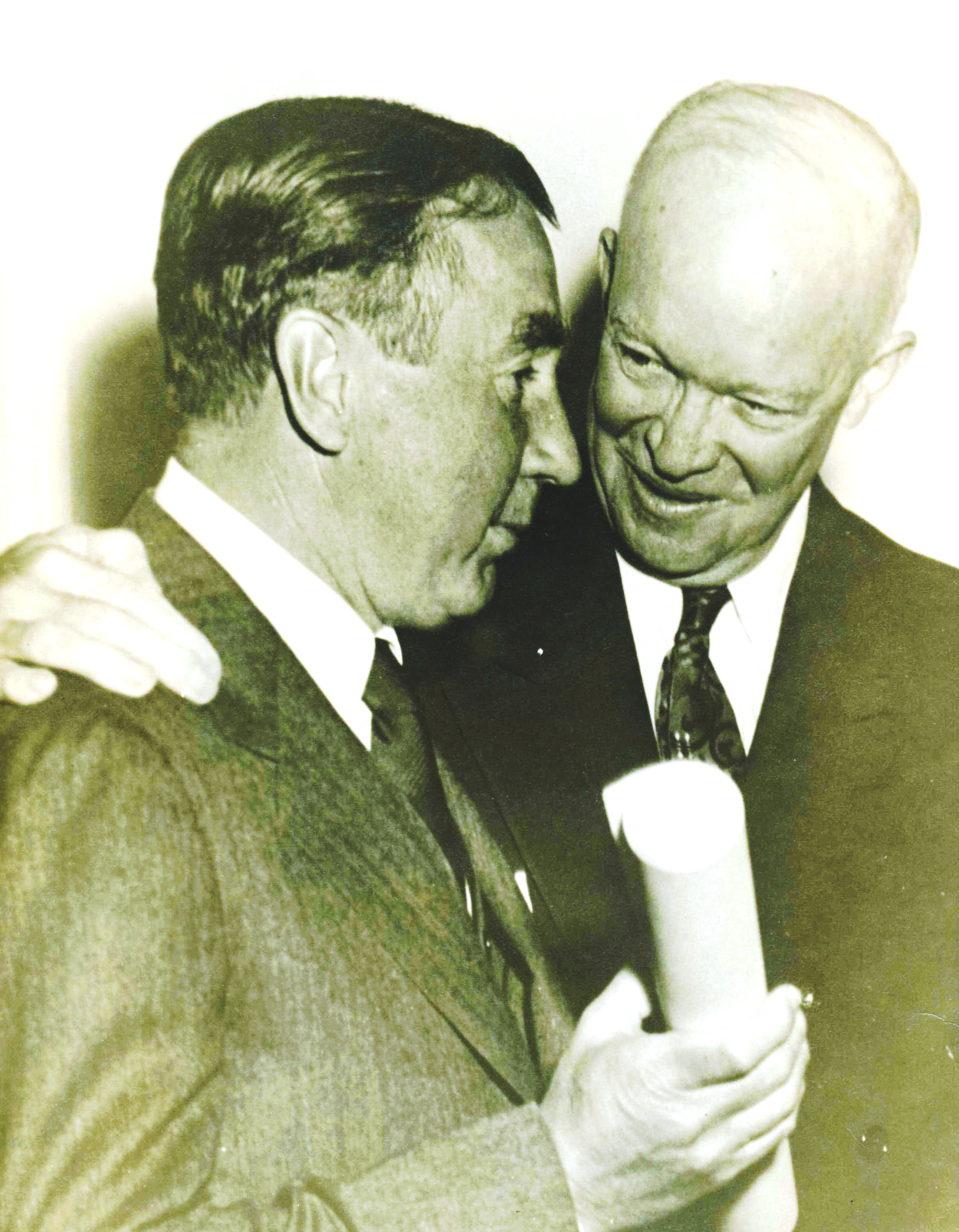 White House - 1 March 1956 - William Harding Jackson, Special Assistant to the President for National Security Affairs, with President Dwight D. Eisenhower